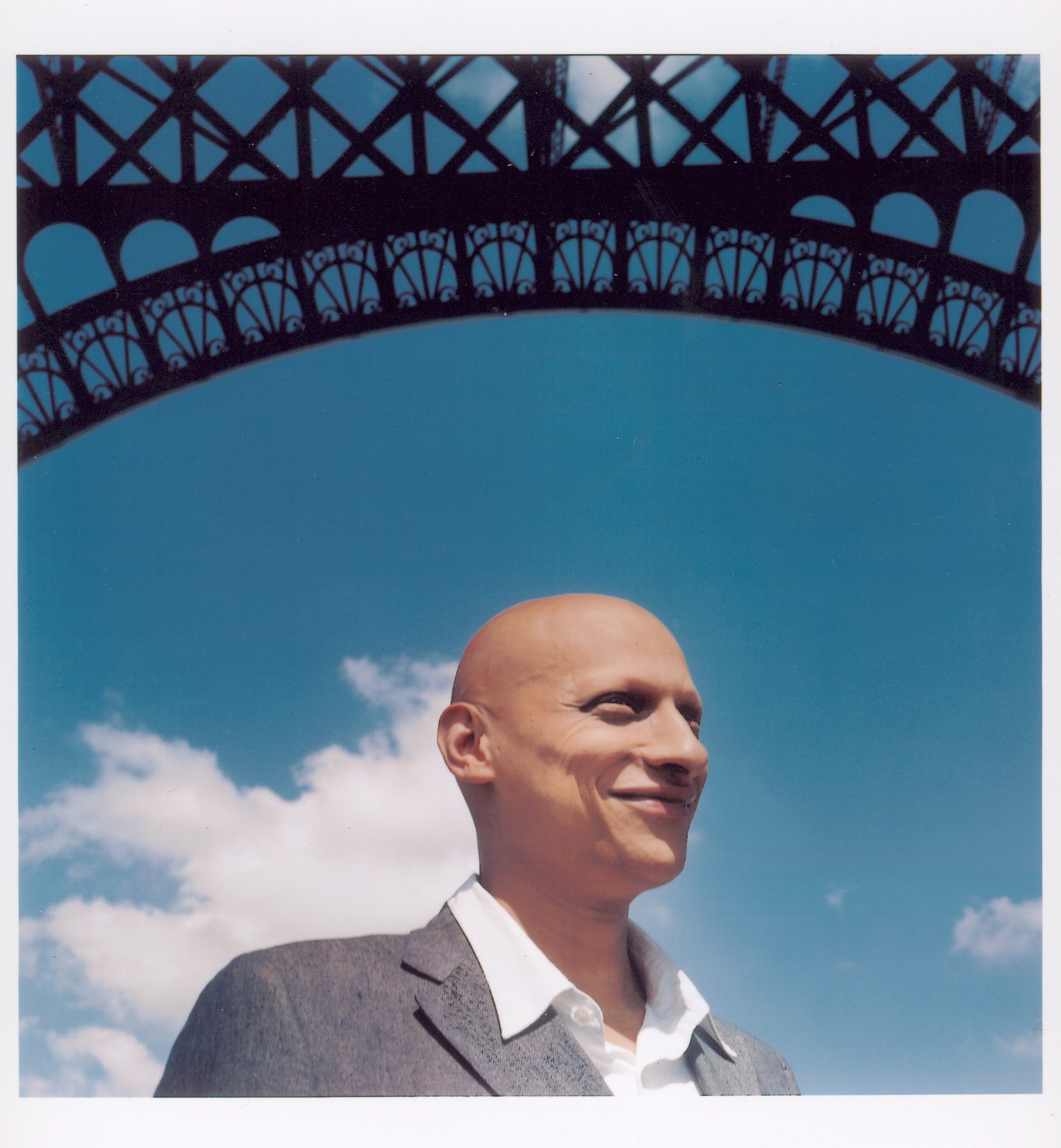 Dominique Dalcan aka Snooze (Goingmobile Album)